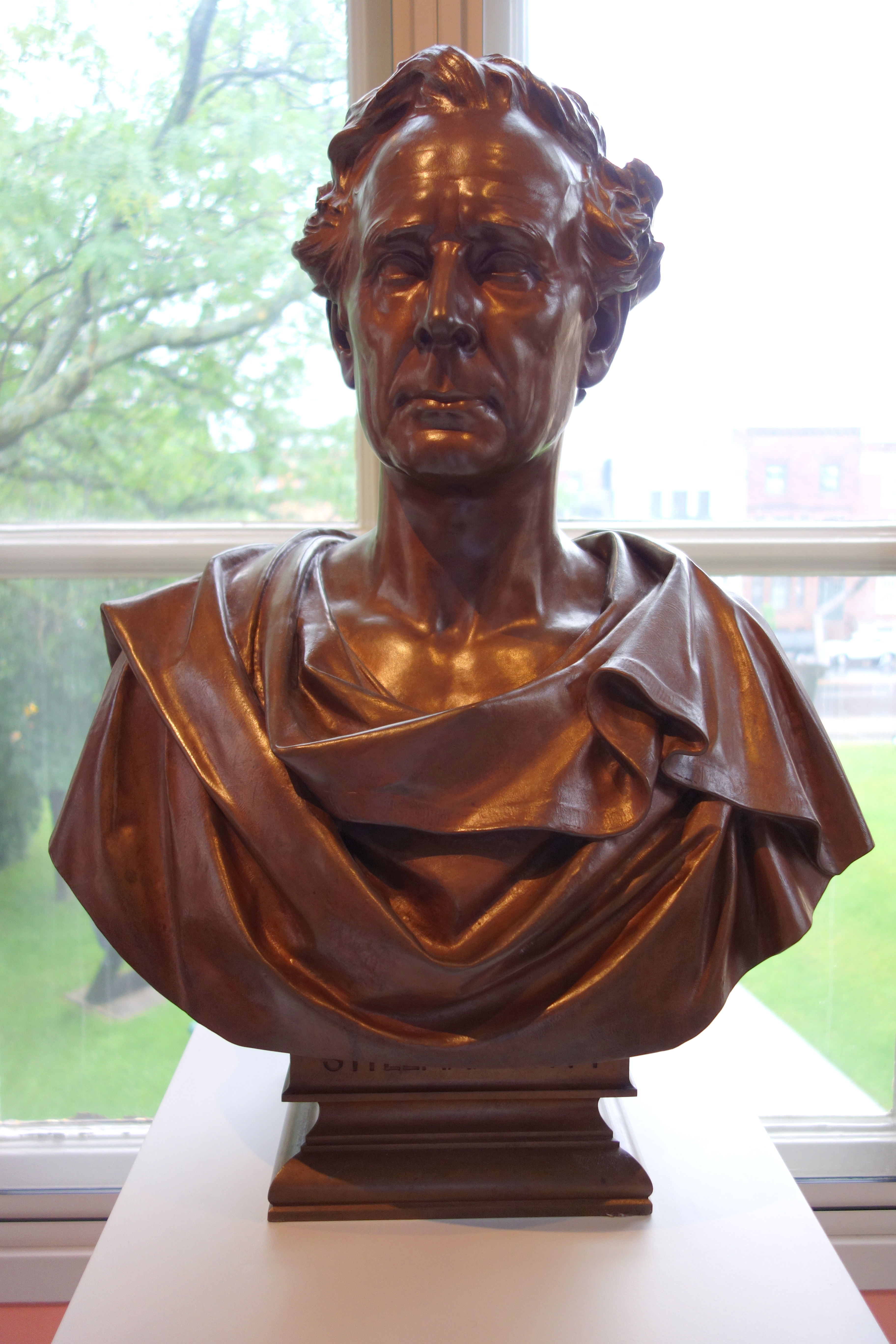 Exhibit in the Albany Institute of History and Art, Albany, New York, USA. This artwork is in the public domain because the artist died more than 70 years ago.